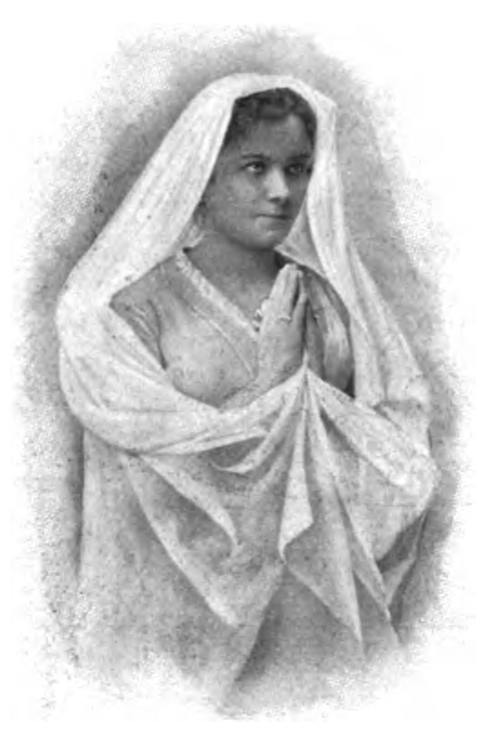 „Ilka von Palmay als Mamsell Nitouche (Theater an der Wien)“, 5 February 1901 Ilka von Pálmay (1859–1945), Hungarian vocalist, actress and writer